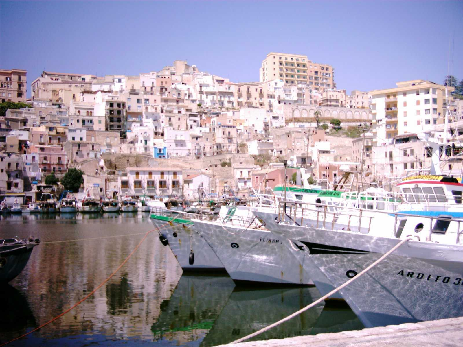 Sciacca in southern sicily-island (Italy). view from the fishing harbour in 2003.